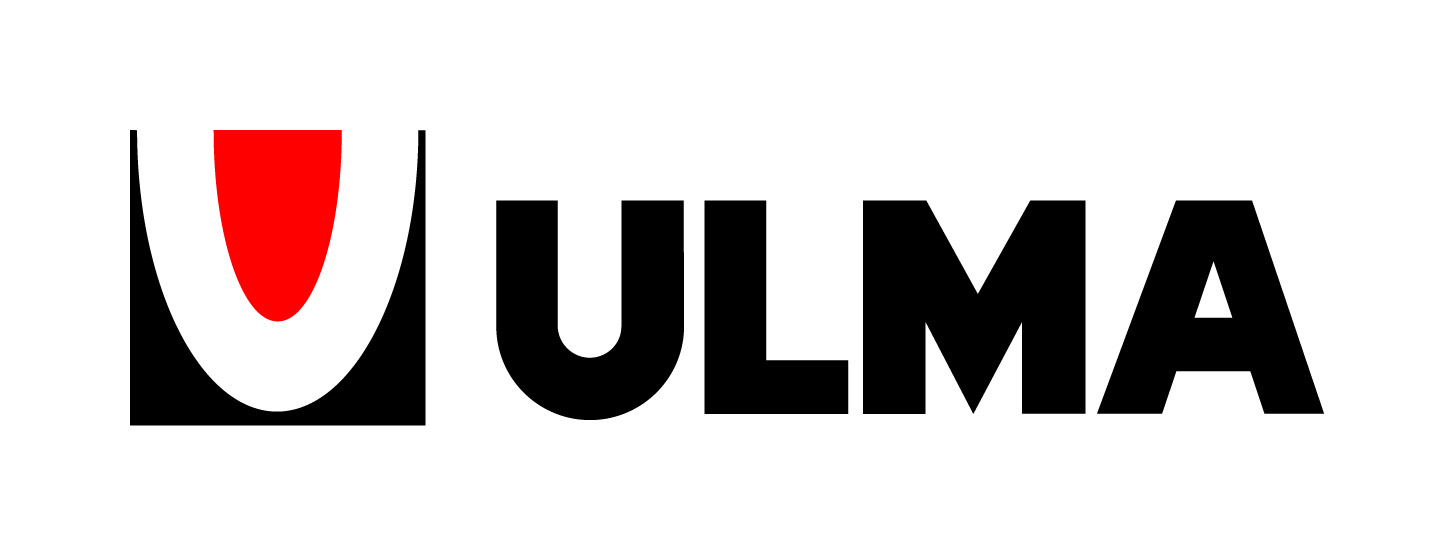 ULMA Construccion